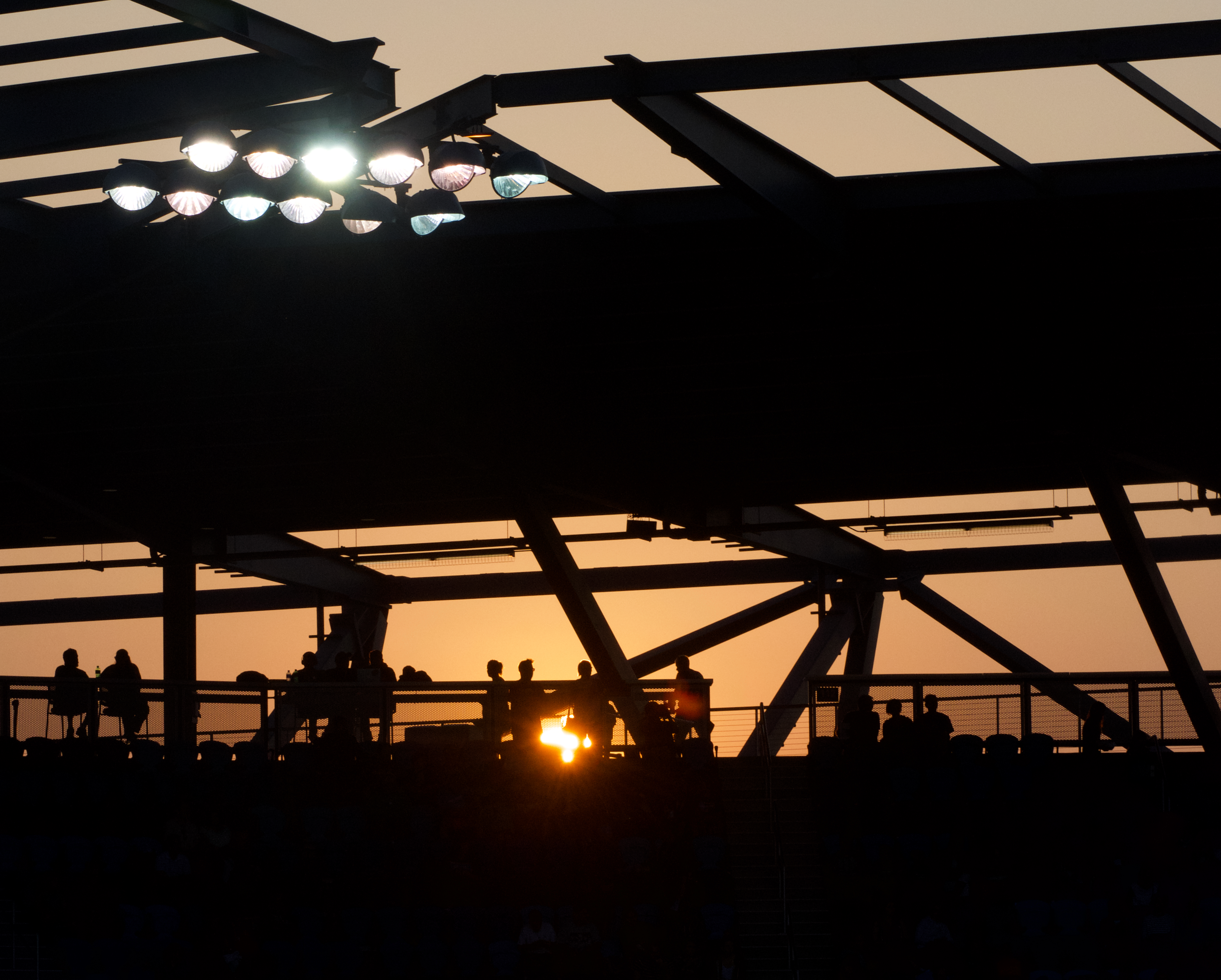 The sun sets behind the top row of Avaya Stadium. 19 August 2017 in San Jose, California.